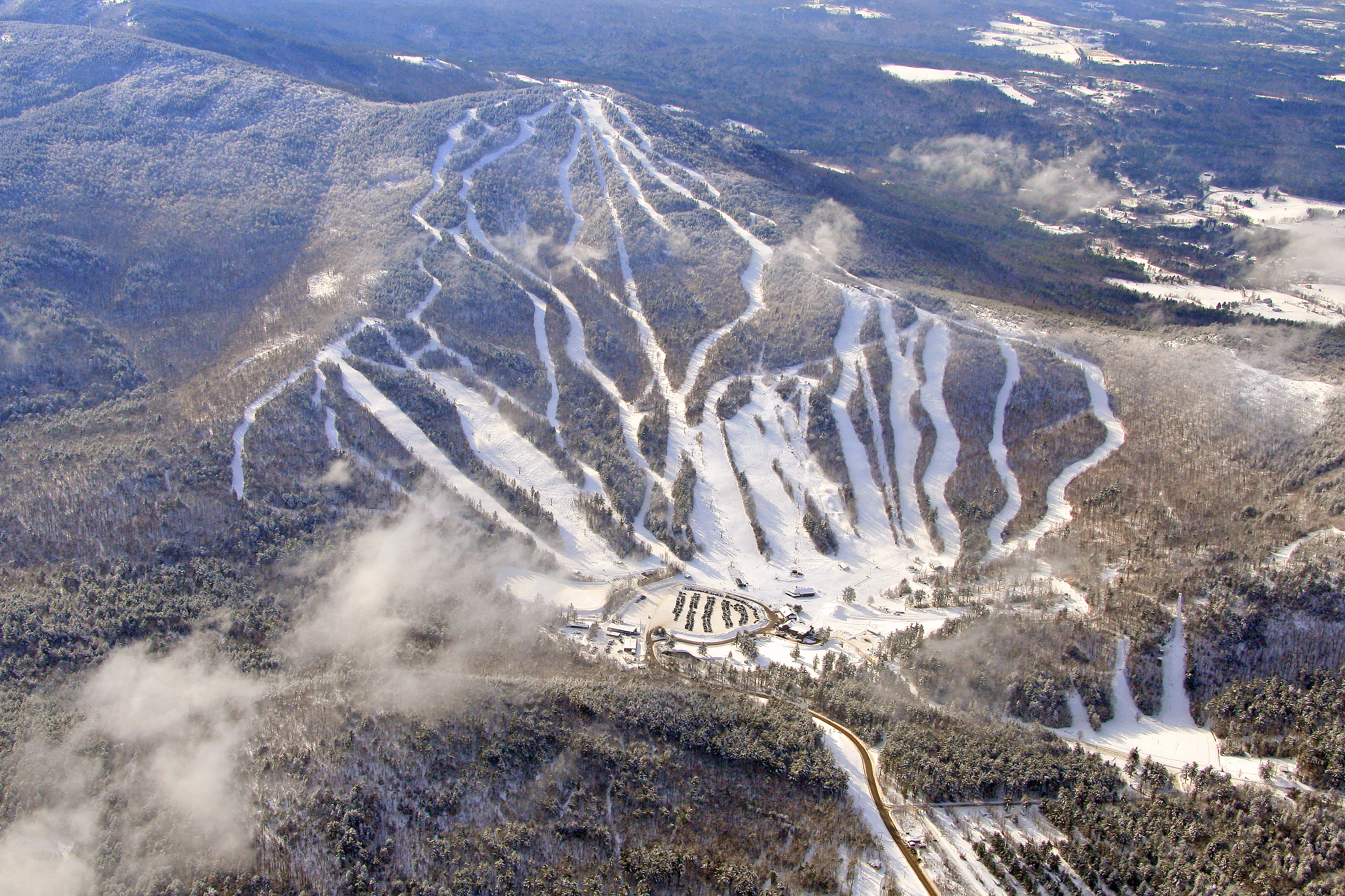 Aerial shot of Gunstock Mountain Resort in December, 2007.